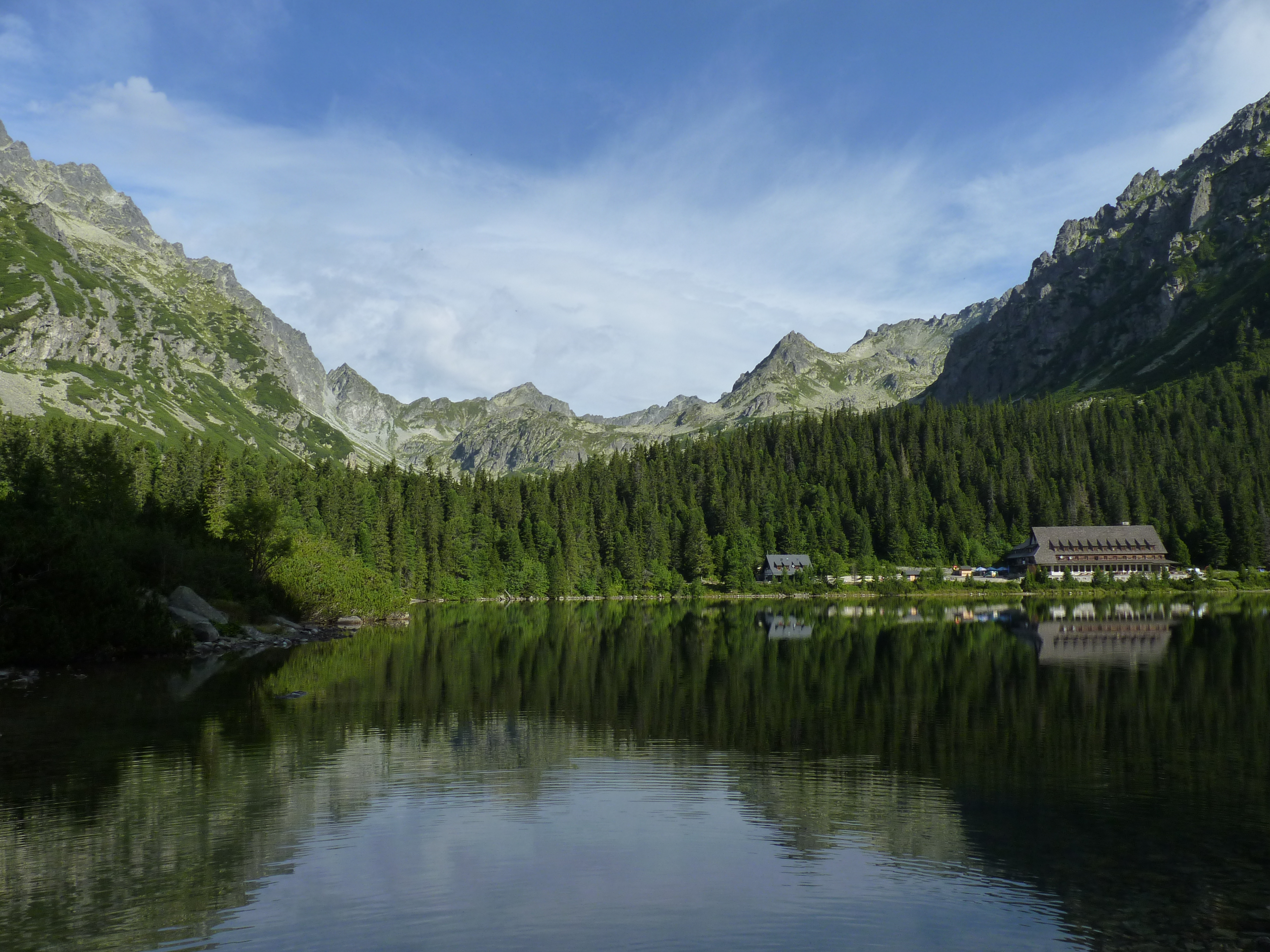 Mountain hut (Chata pri Popradskom plese) and Popradské pleso (water). Mengusovská Valley, Tatra Mountains, Slovakia